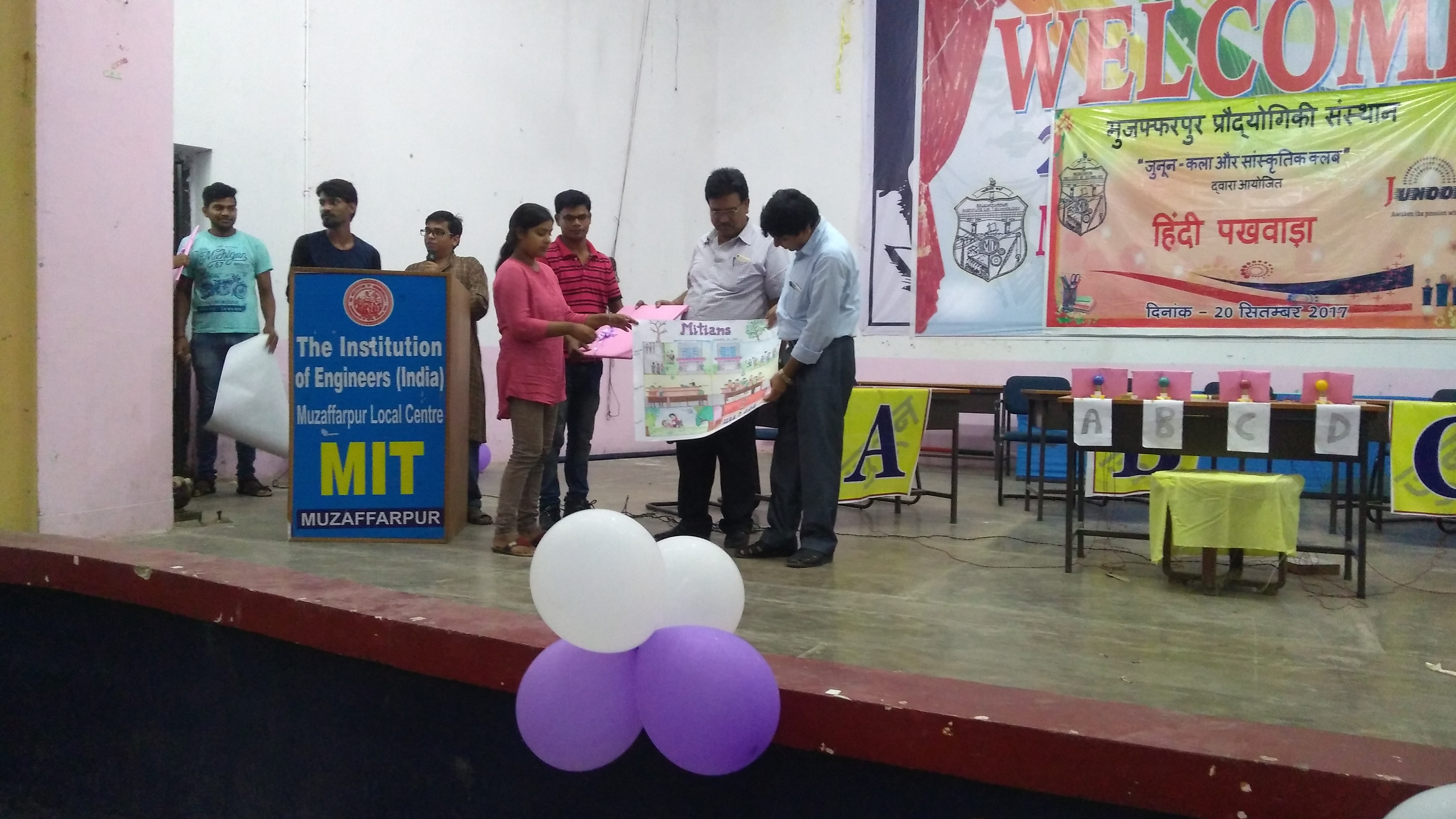 Junoon